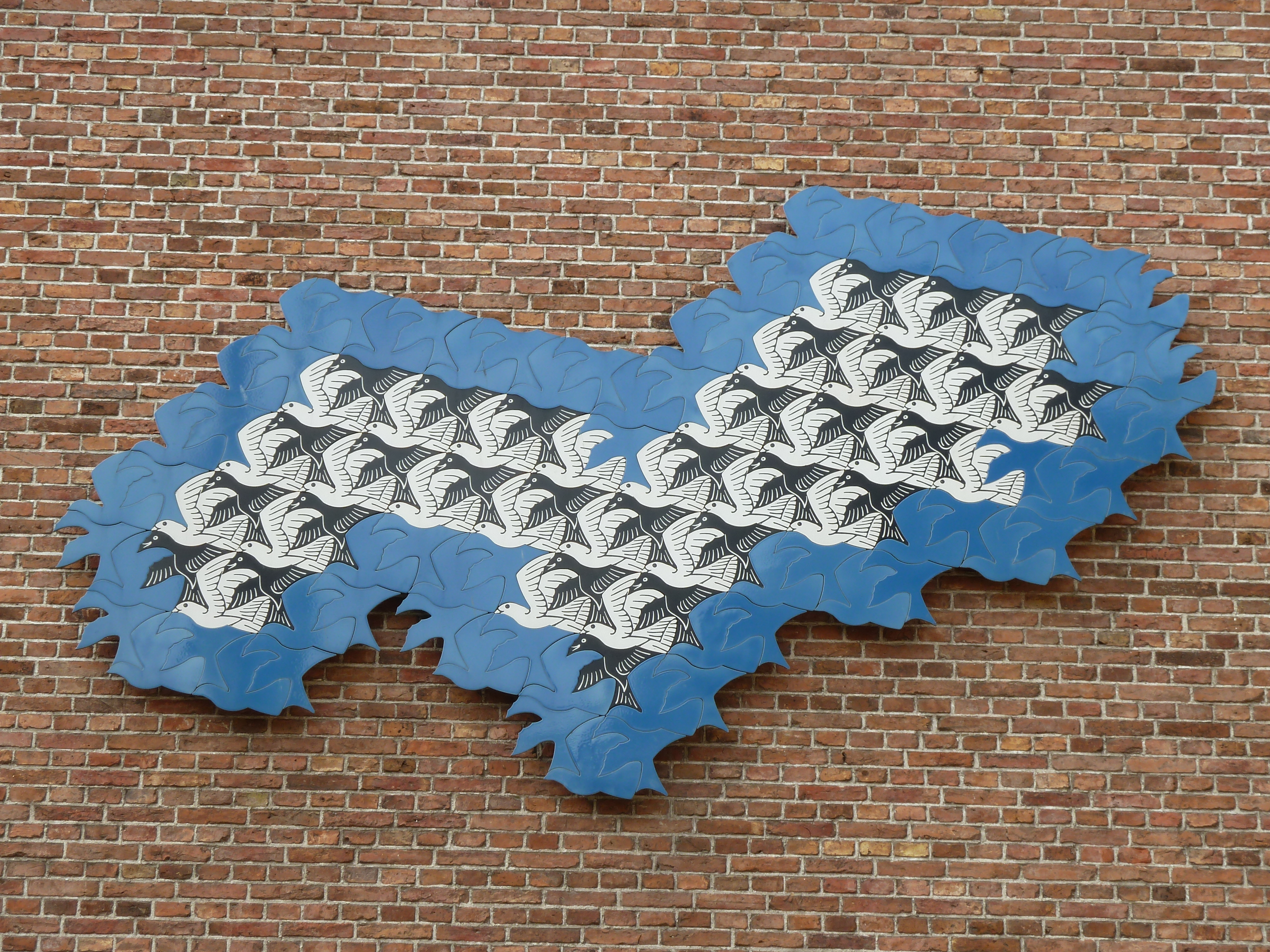 Wall tableau of a tessellation by local resident M. C. Escher on the Princessehof ceramic museum, Leeuwarden. The tableau appears to be based on the ink and watercolour Regular Division of the Plane Drawing #47, a study for Verbum, 1942.